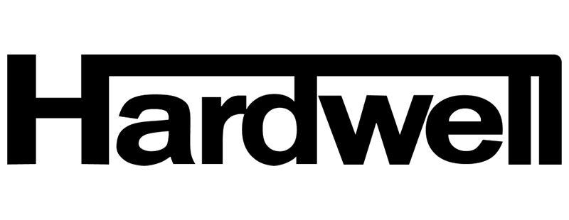 Hardwell Logo